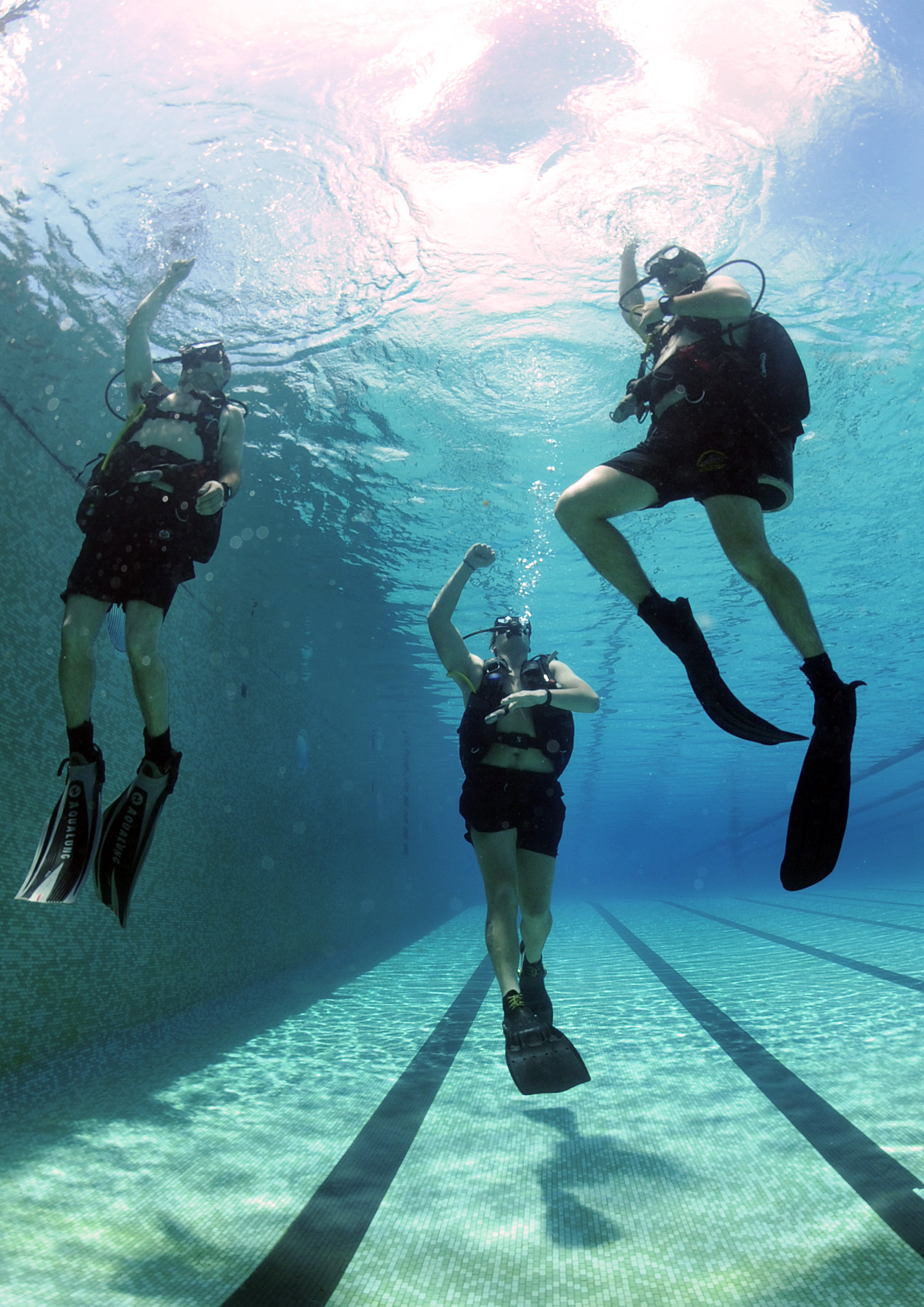 PANAMA CITY, Panama (Aug. 17, 2010) Navy Diver 2nd Class David Orme, center, and Colombian divers, Capt. Camilo Cifuentez, right, and Chief Technician Aurelio Alonso, slowly ascend to the surface during underwater gear familiarization. Company 2-6 of Mobile Diving and Salvage Unit (MDSU) 2 is participating in the Navy Diver-Southern Partnership Station exercise, a multinational partnership engagement designed to increase interoperability and partner nation capacity through diving operations. (U.S. Navy photo by Mass Communication Specialist 1st Class Jayme Pastoric/Released)